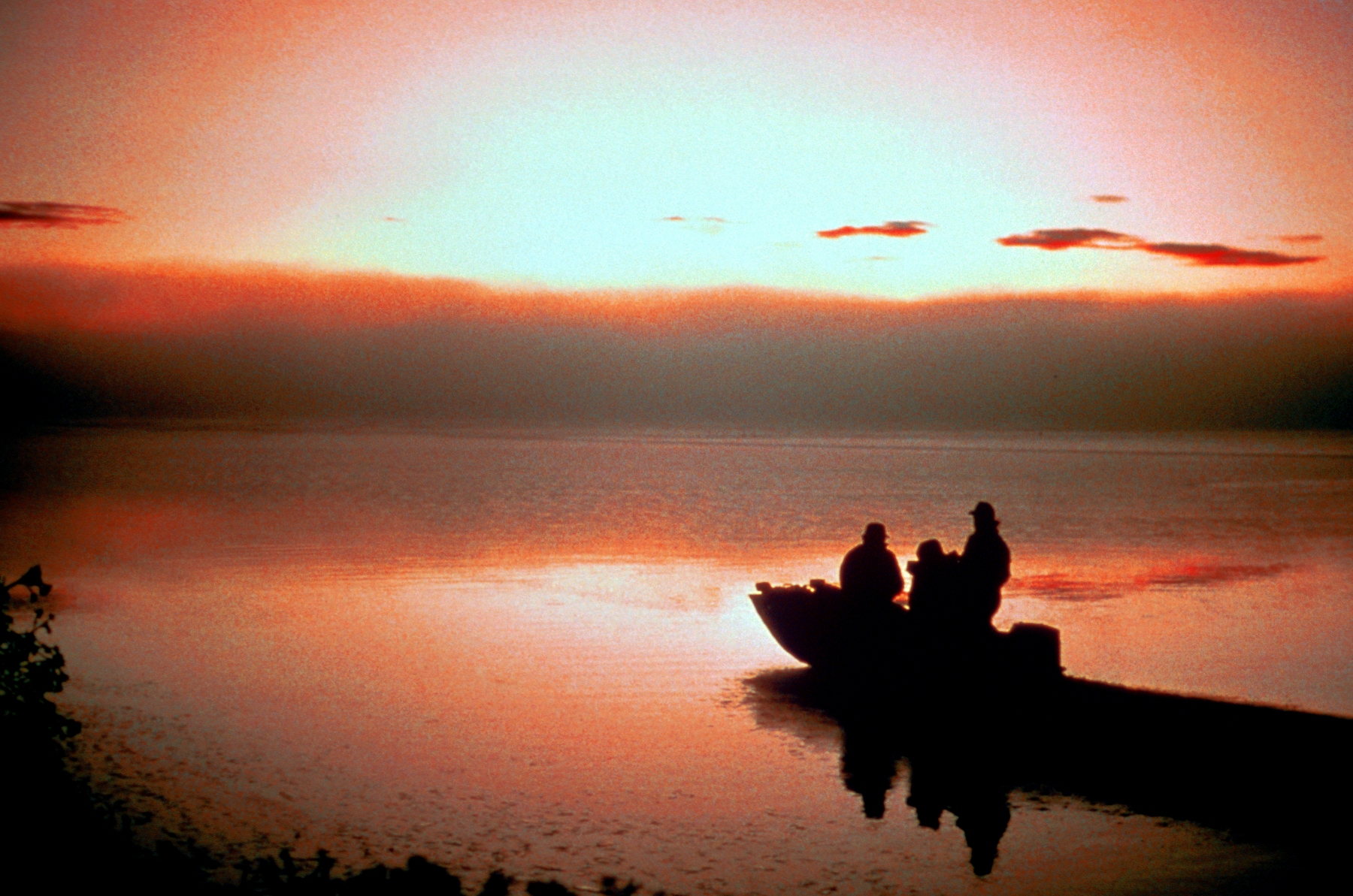 Sunset over Tule Lake, Siskiyou County, California.